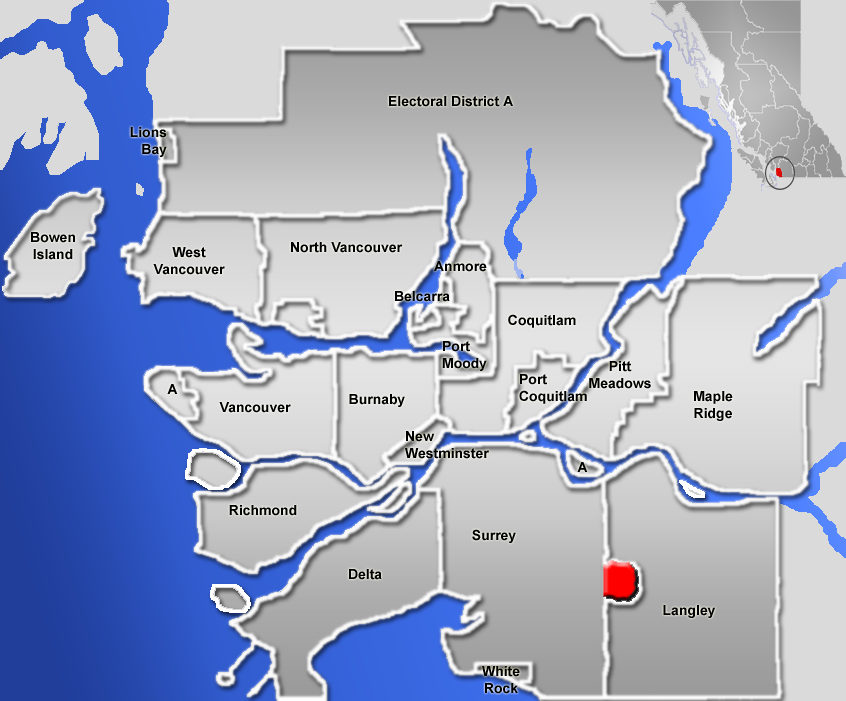 Location of Langley (city), Greater Vancouver Area, British Columbia